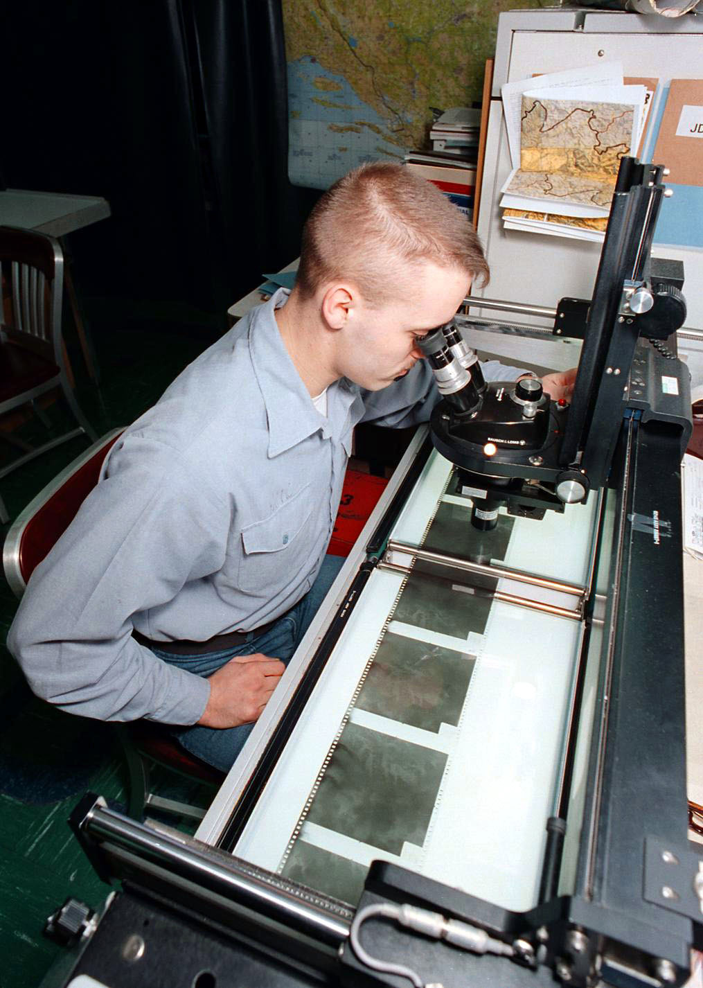 US Navy Intelligence Specialist 3rd Class John Yanc examines Tactical Air Reconnaissance Pod Systems (TARPS) photography in the Aircraft Carrier Intelligence Center (CVIC) on board the US Navy's nuclear powered aircraft carrier USS GEORGE WASHINGTON (CVN 73). The imagery was acquired using the portable TARPS system attached to an F-14B Tomcat aircraft assigned to Fighter Squadron One Four Three (VF 143). George Washington is commanded by US Navy Captain Malcolm P. Branch, and is operating in the Adriatic sea, in support of the NATO-led Implementation Force (IFOR), under operation DECISIVE ENDEAVOR.